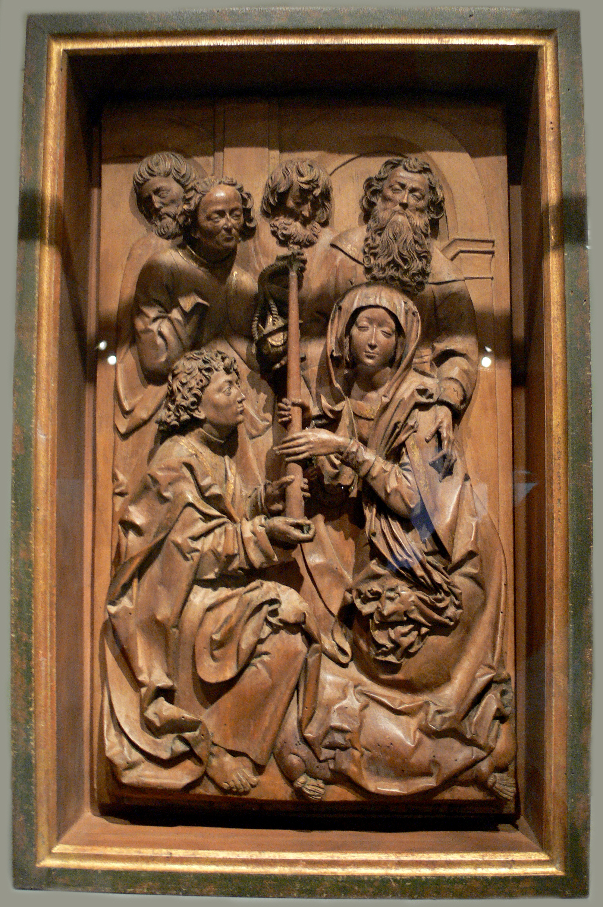 Veit Stoss: Death of the Virgin Mary; Nuremberg after 1523; limewood Bayerisches Nationalmuseum München; Inv. Nr. L 2004/268; Dauerleihgabe der Sammlung Rudolf August Oetker (im 19. Jh. Privateigentum der sächsischen Königsfamilie)